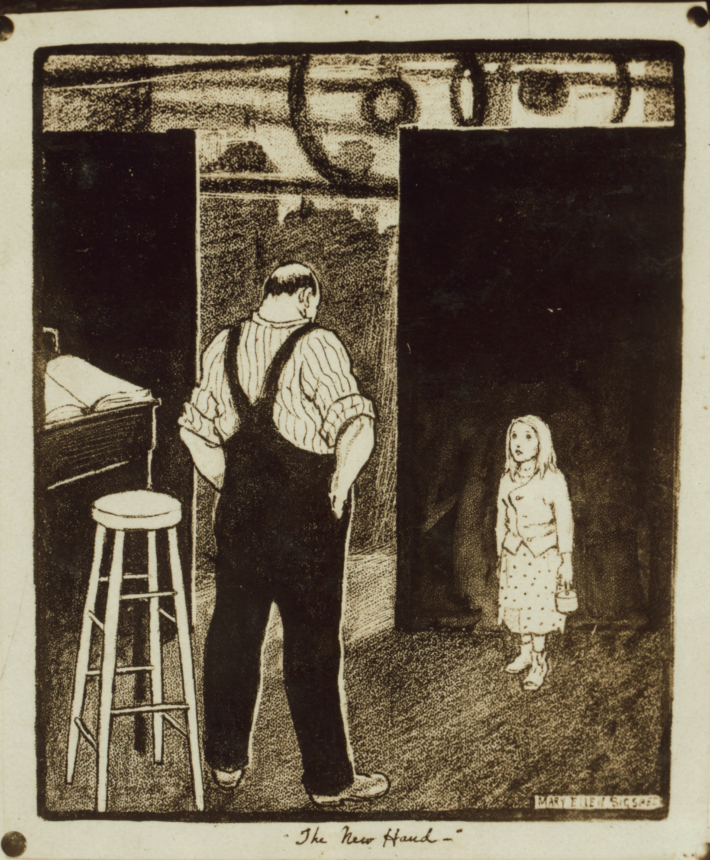 Title: The new hand / Mary Ellen Sigsbee Abstract: Photographs from the records of the National Child Labor Committee (U.S.) Physical description: 1 photographic print. Notes: Cartoons (Commentary).; Child labor.; Girls.; Supervisors.